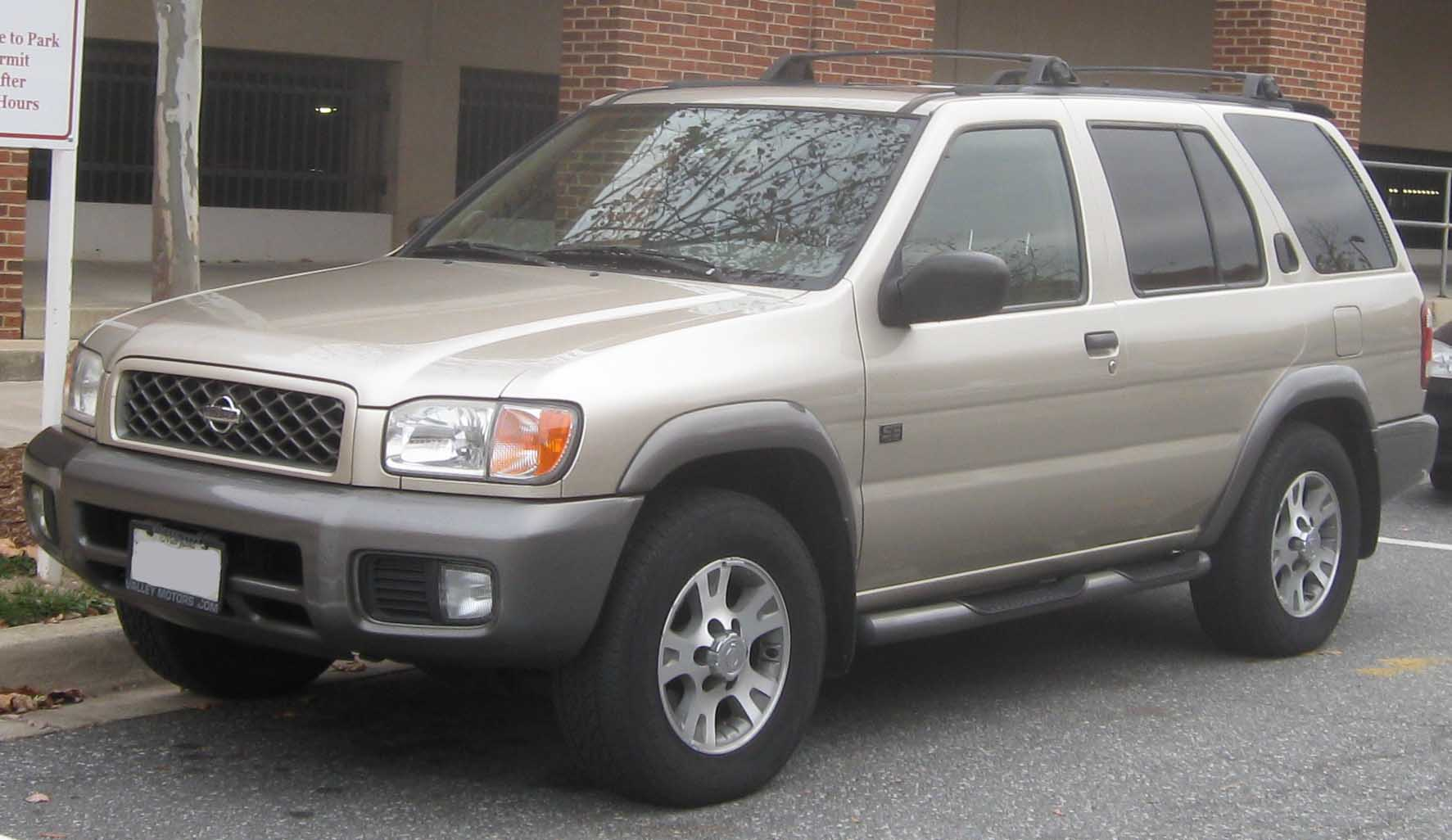 2000-2001 Nissan Pathfinder photographed in College Park, Maryland, USA.